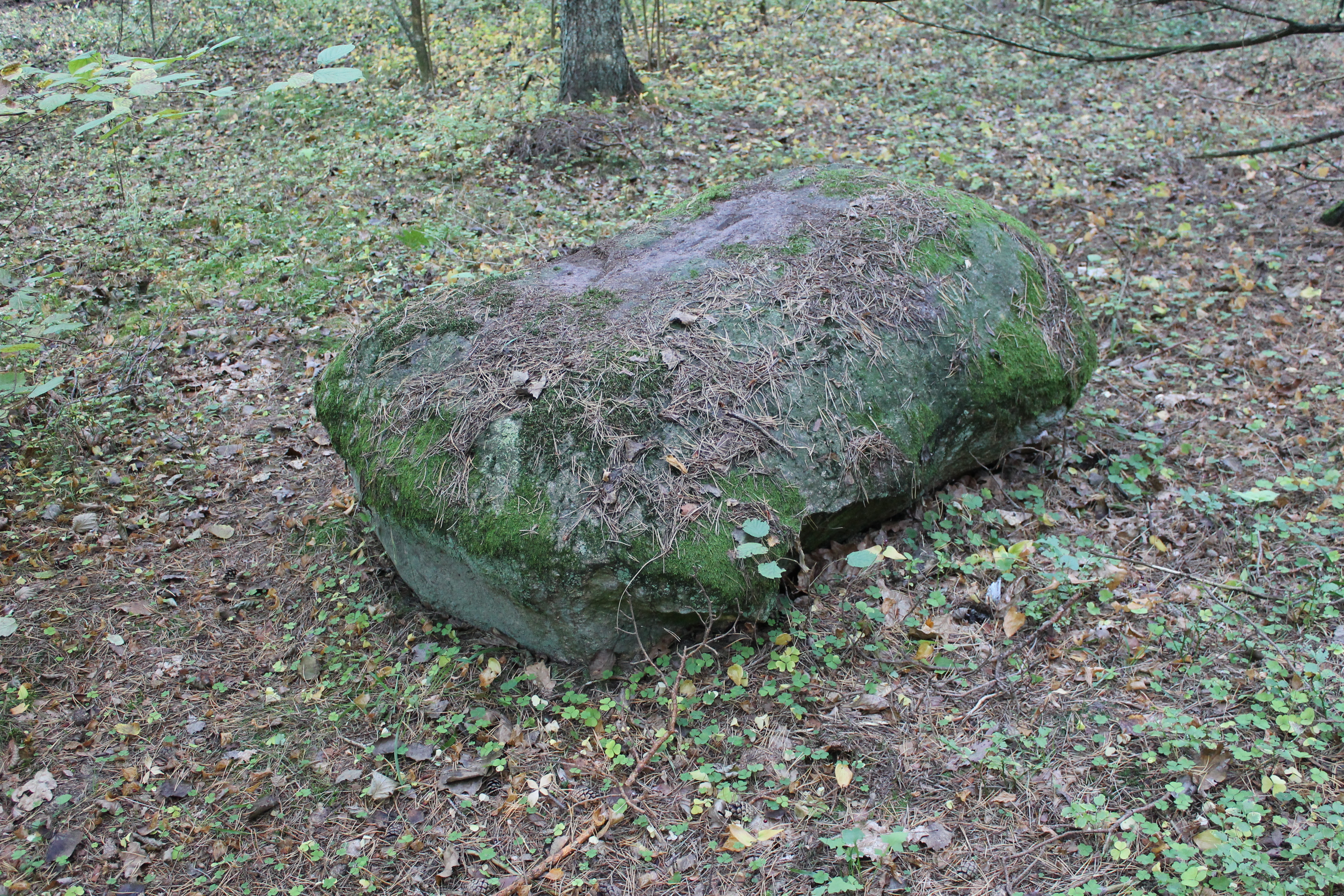 Joskaudai stone, Kretinga district, Lithuania